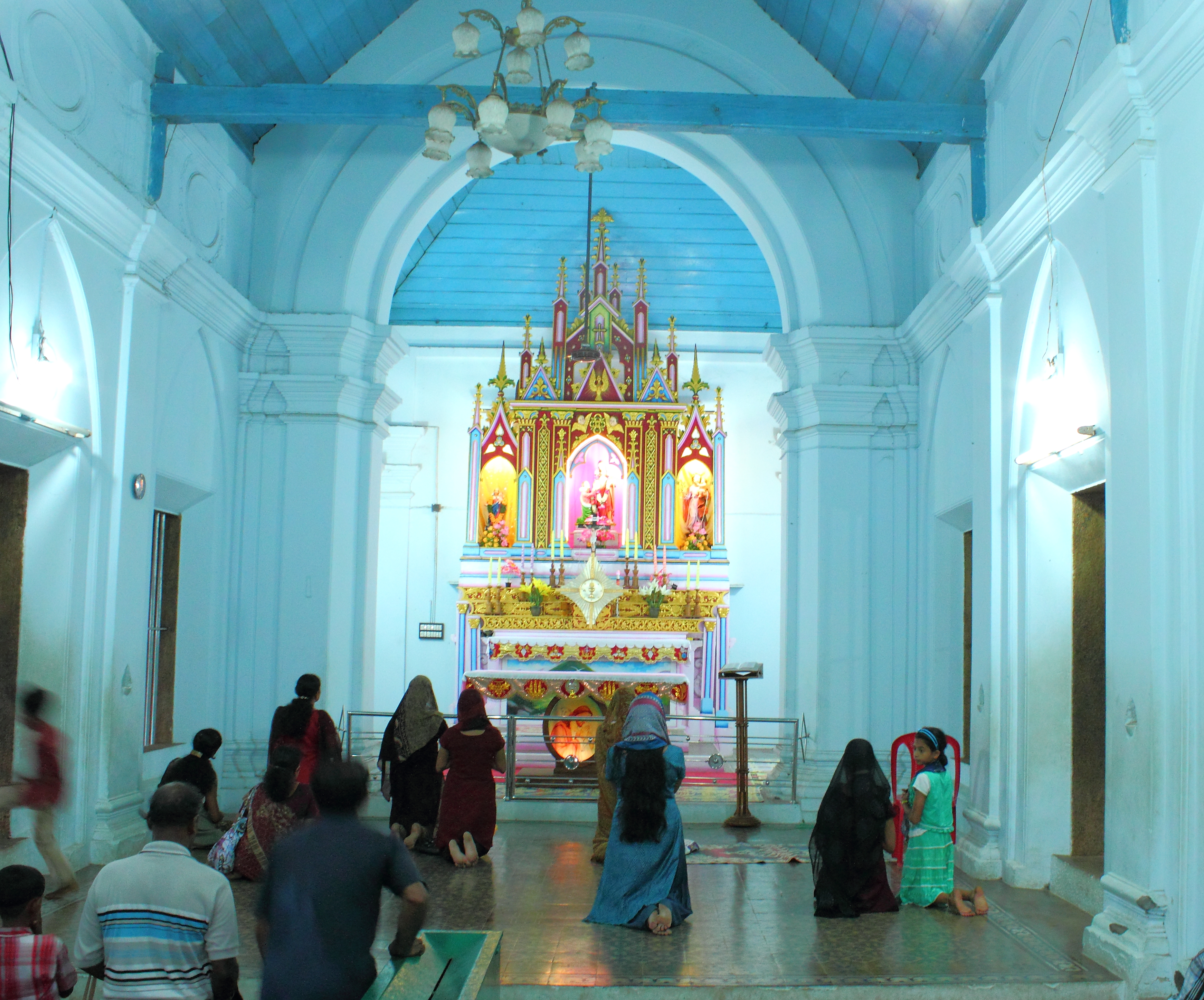 Kurisumudi (Hill of the holy cross) is a mountain at Maiayattoor. It has fame as a place visited by St. Thomas, one of the apostles of Jesus Christ. Jesus gave a mandate to his apostles to go out to the whole world and to proclaim the Good News. Taking upon himself this commandment, Thomas set out to India and landed at Kodungalloor in AD 52. He spent 20 years in India, travelled through different parts of this great country of spirituality. He founded seven communities of believers, which were Kodungailoor, Palayoor, Kottakavu, Kokkamangalam, Chayal, Kollam, and Niranam.